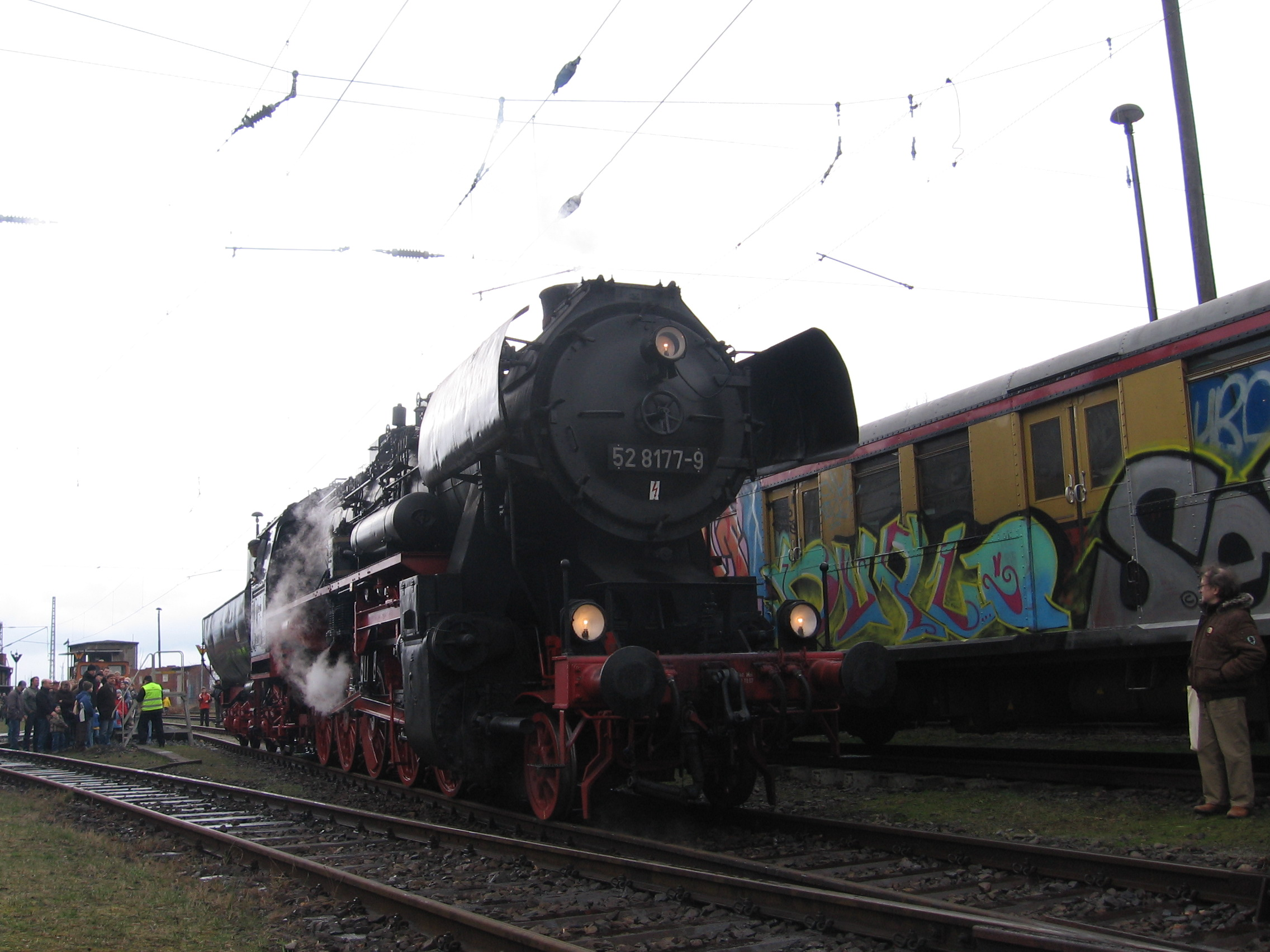 German Steamlocomotive 52 8177.